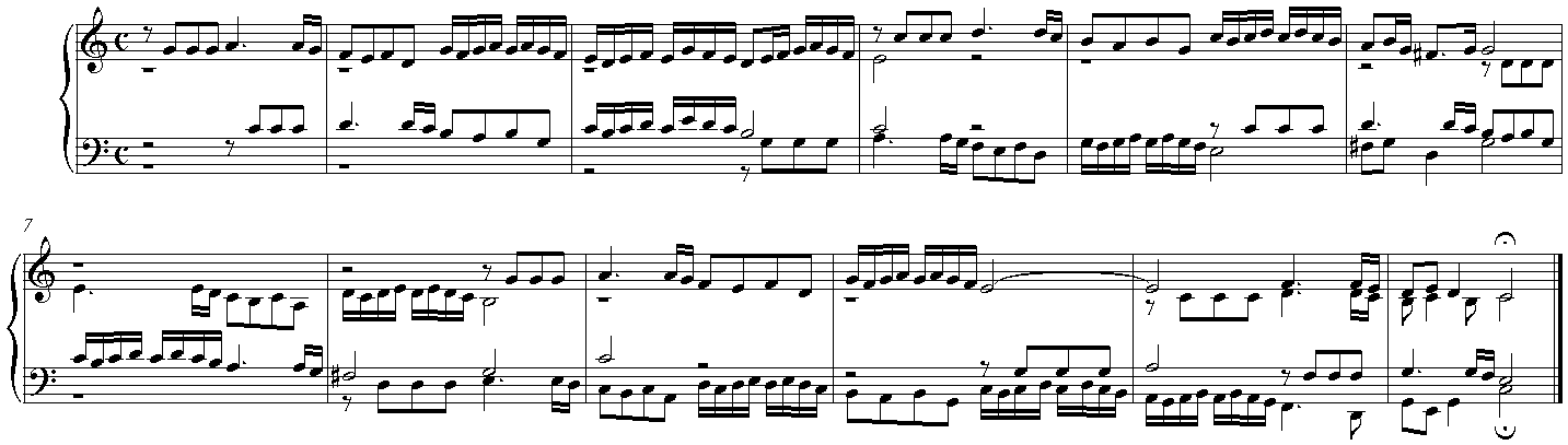 Musical quotation from Fugue in C major by Johann Caspar Ferdinand Fischer (died 1746). Made using Sibelius 4 by Jashiin. The music quoted is in the public domain, and the image is hereby released into the public domain by Jashiin.